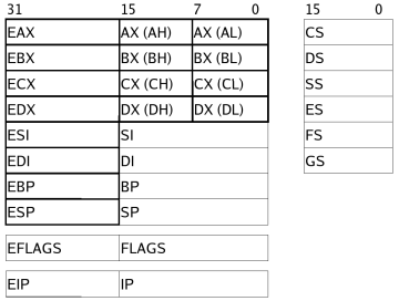 CPU i386 registers